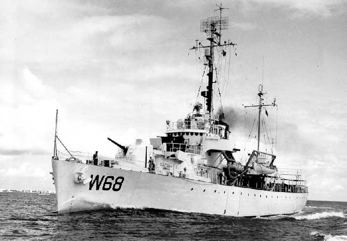 Original caption states: "The 255-foot USCGC Androscoggin (WHEC-68), stationed at Miami, Florida, as a training and search and rescue ship, is now carrying specially trained U.S. Weather Bureau observers to gather upper-air weather information during her patrols in the Gulf of Mexico. Androscoggin makes a number of training cruises a year and performs search and rescue work in the South Atlantic and Gulf. In connection with law enforcement, she patrols the Campechi Banks, [which] are...fishing grounds off the town of Campechi in the Gulf used by hundreds of fishing vessels of the United States and Mexico."